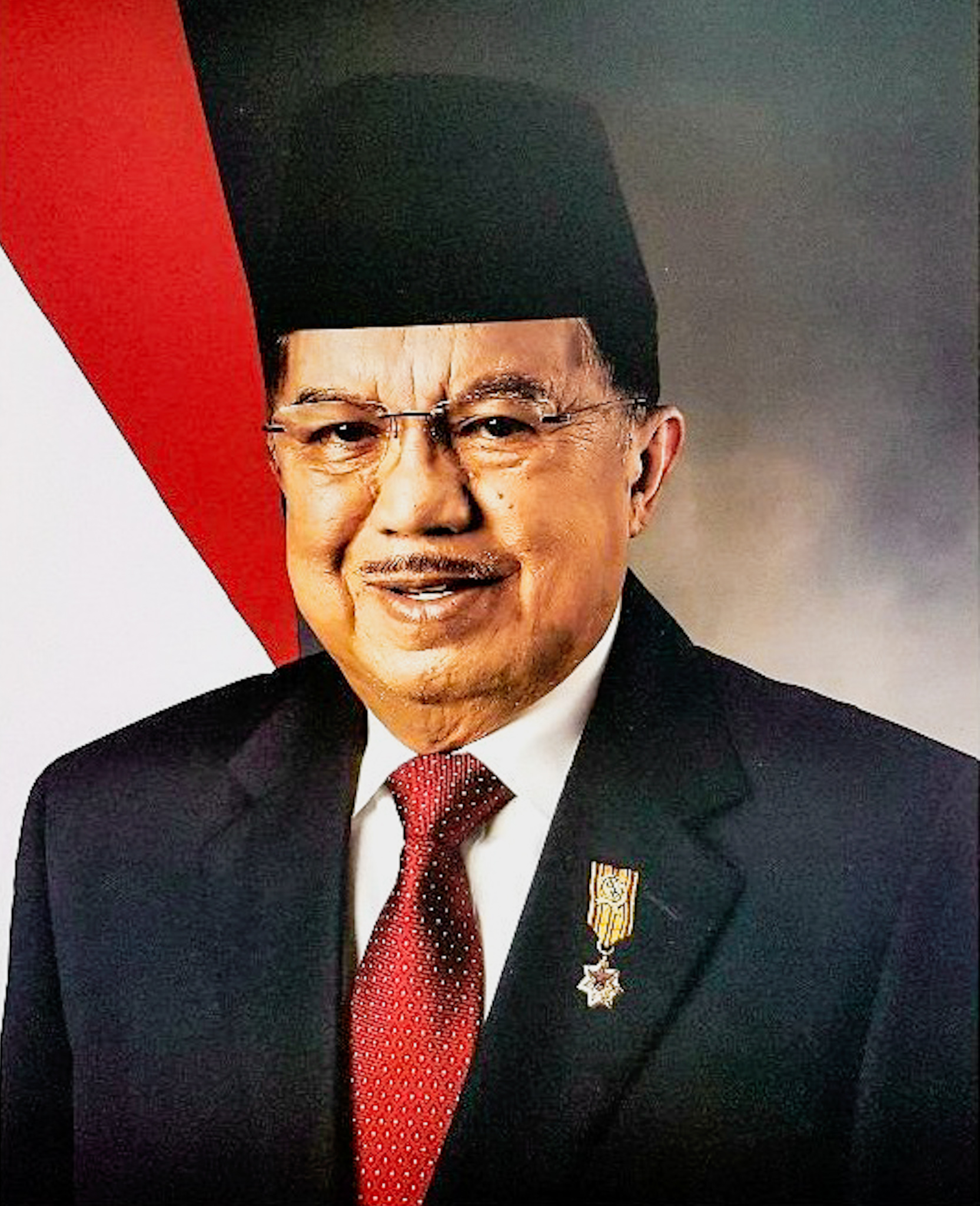 Jusuf Kalla official vice-presidential portrait, used between December 2016 to October 2019.